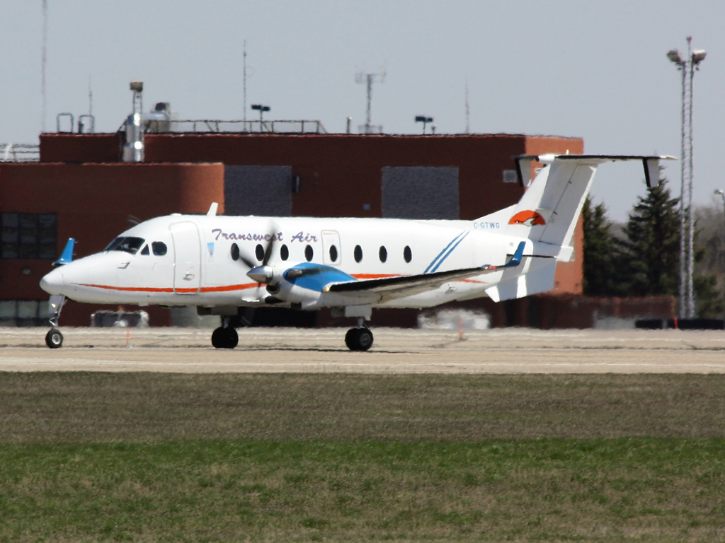 Transwest Air Beech 1900D, registration C-GTWG, departing YQR.